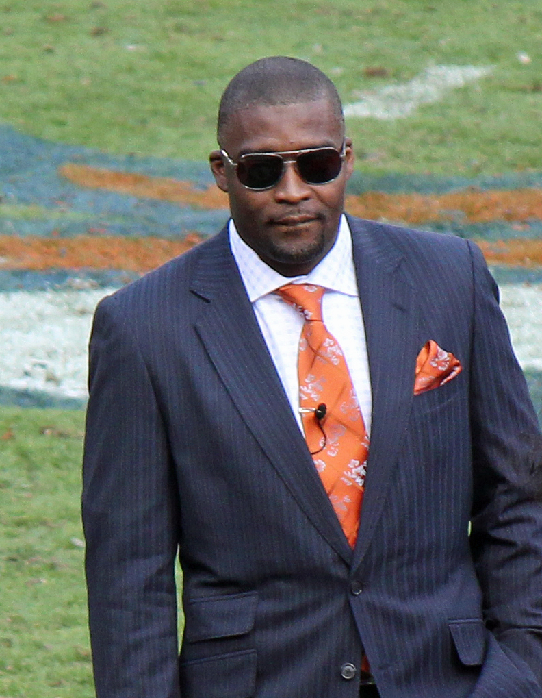 Rod Smith, a former player on the National Football League's Denver Broncos.